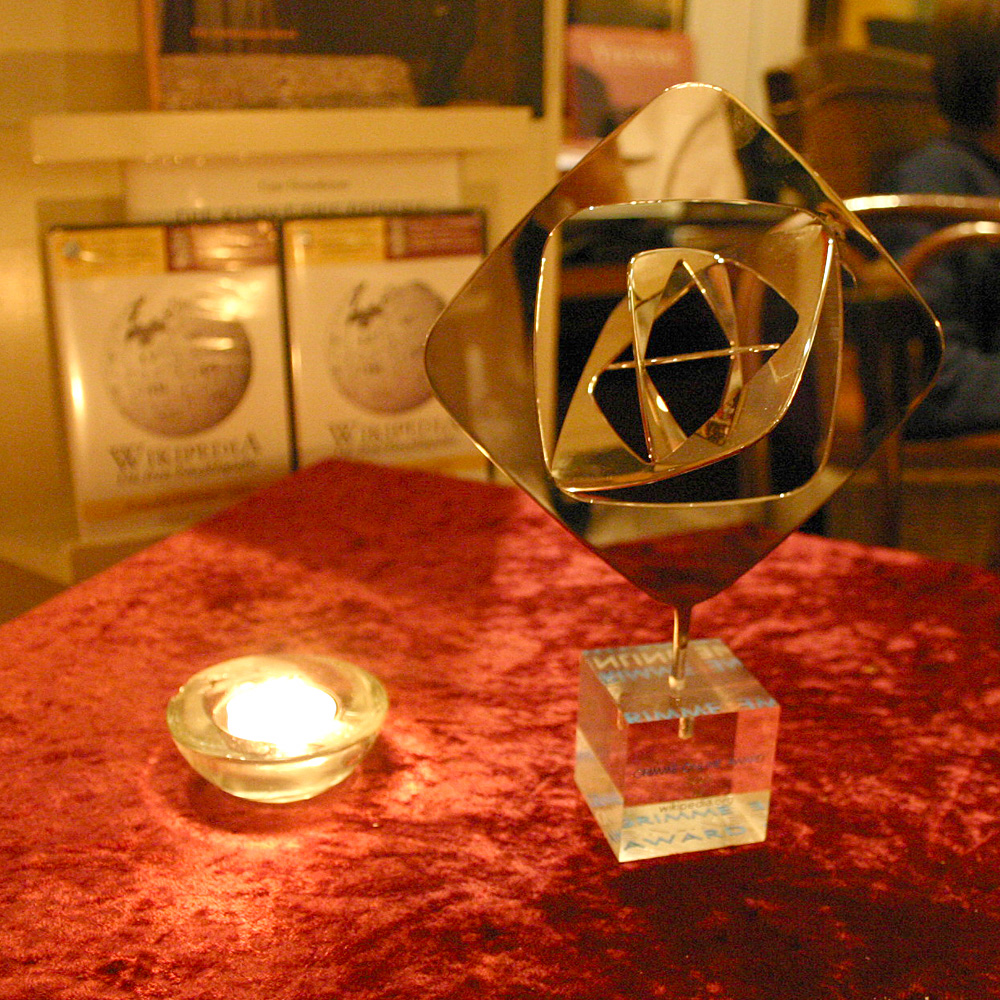 Wikipedia Stammtisch (meetup) Cologne 2005-10-14 author: Elke Wetzig (elya)